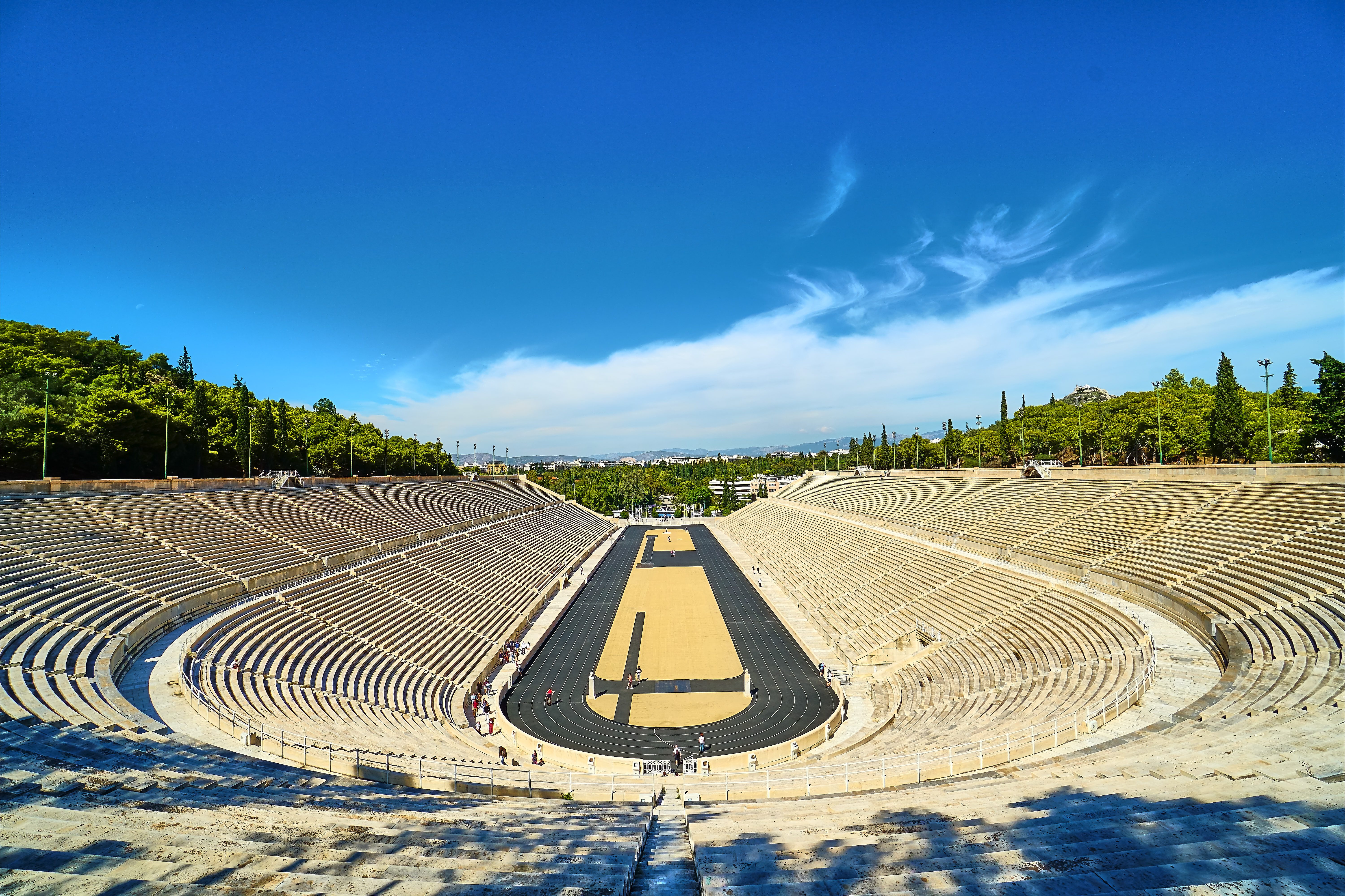 The Panathenaic Stadium of Athens. Athens, Greece.